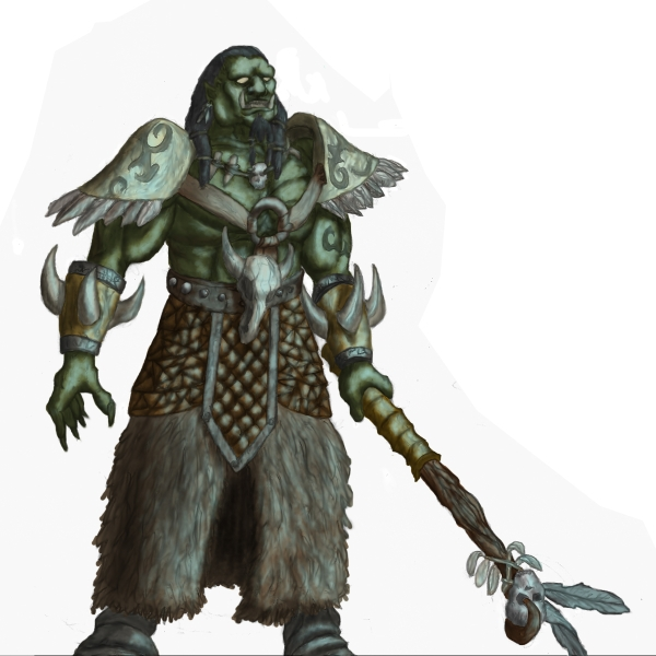 Orc